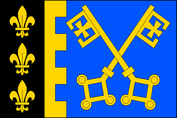 Flag of Chýně municipality, Prague-West District, Czech Republic.